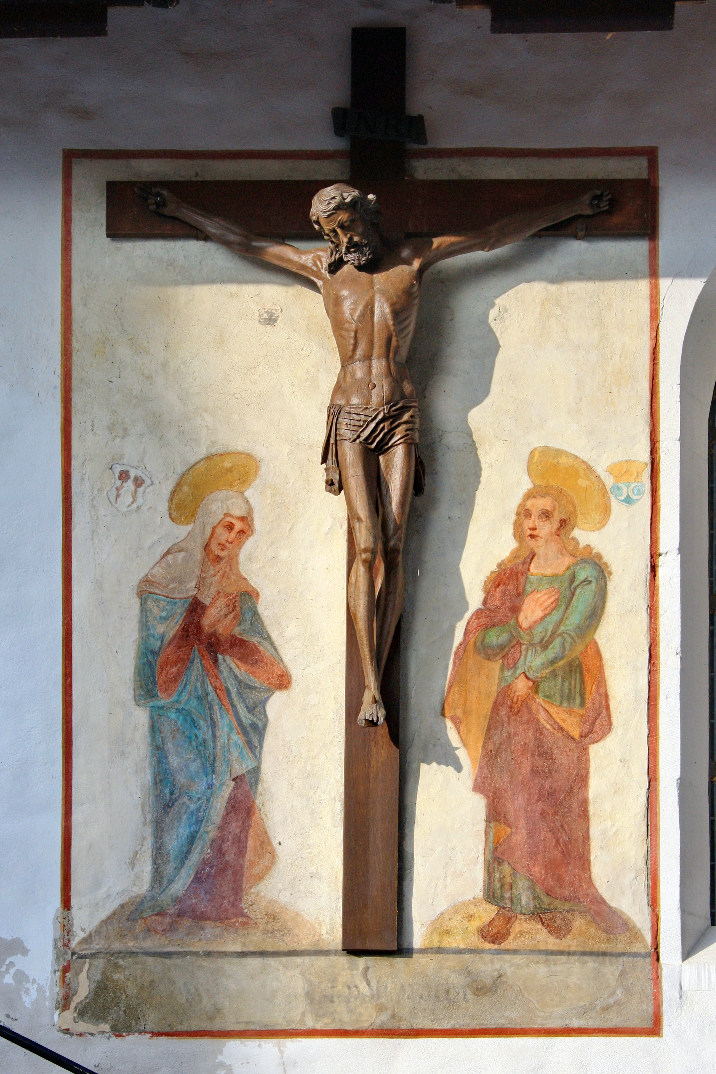 Liebfrauenkapelle (St. Mary's Chapel) in Rapperswil (Switzerland), Schloss Rapperswil in the background.